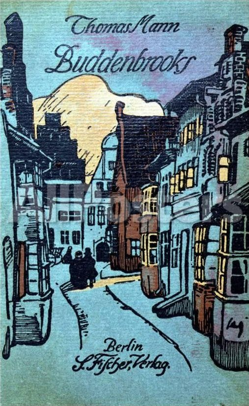 Buddenbrooks by Thomas Mann, book cover from 1917